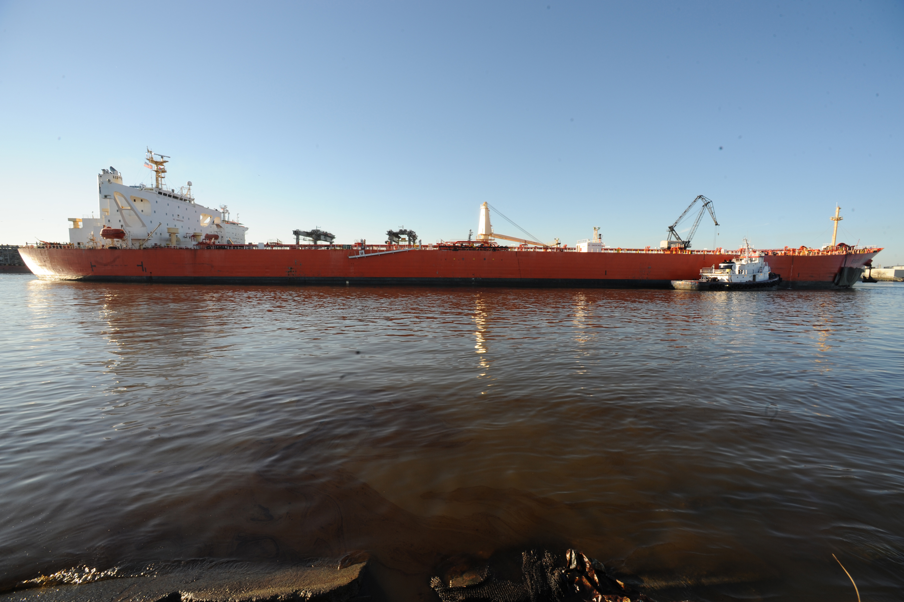 PORT ARTHUR, Texas - The tank vessel Eagle Otome moves from the scene of the Port Arthur Oil Spill with the assistance of towing vessels. The Eagle Otome is in route to Beaumont. More than 530 responders are coordinating efforts to clean the Sabine-Neches waterway to prevent harm to the environment and reopen the waterway to vessel traffic. IMO Number: 9051351 MMSI Number: 563414000 Callsign: S6FM Length: 246 m Beam: 42 m